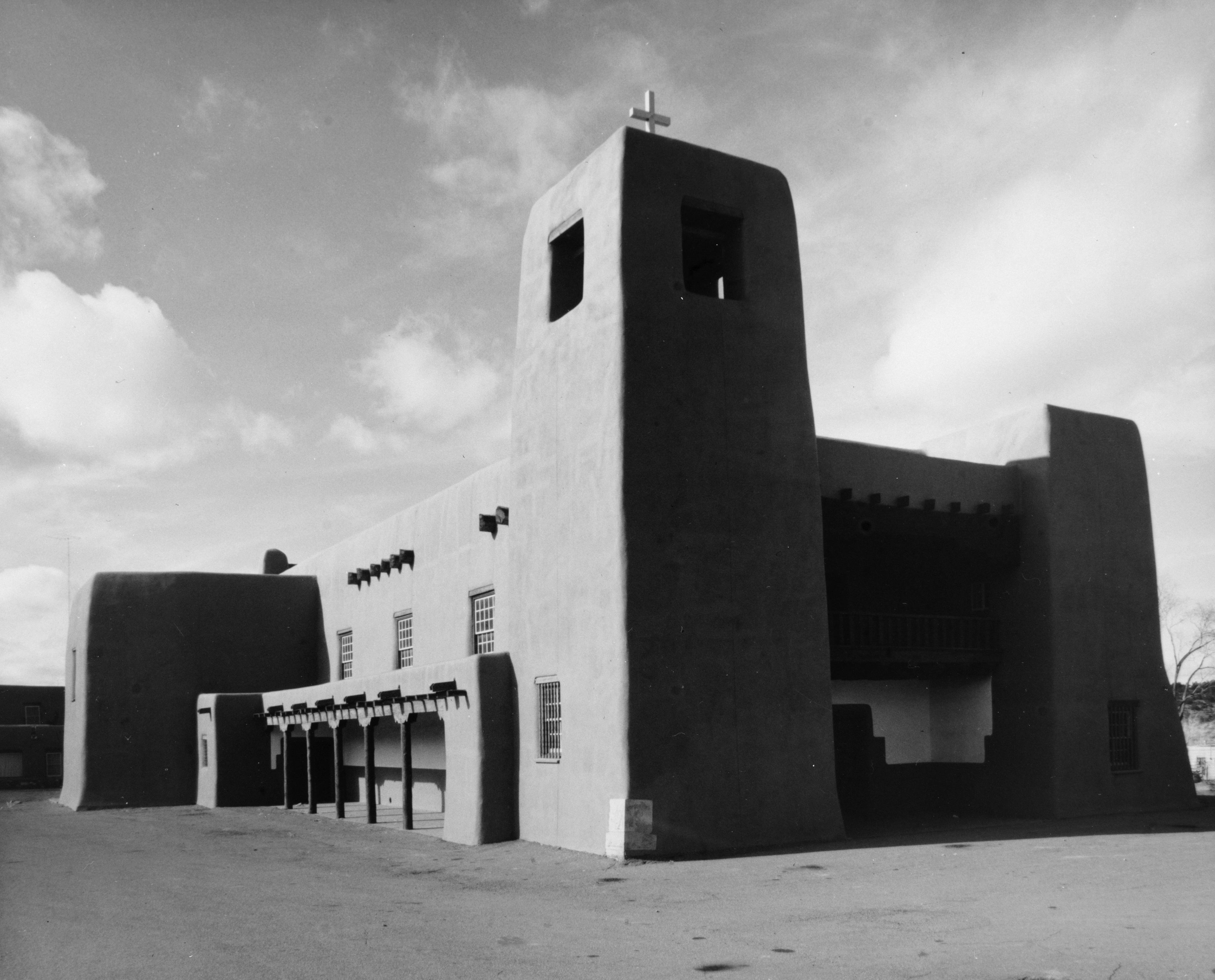 Front of the Reredos of Our Lady of Light — in Santa Fe, New Mexico. The adobe Spanish mission was built in 1760 in the colonial era Nuevo Mexico province of the Viceroyalty of New Spain. Located at the intersection of Canyon Road and Cristo Rey Street, it is listed on the National Register of Historic Places in Santa Fe County. 1970 image from the HABS—Historic American Buildings Survey of New Mexico.